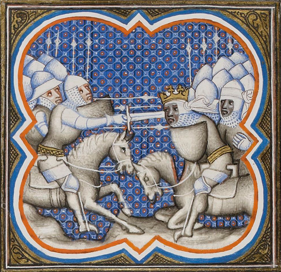 Battle of Roncevaux Pass.